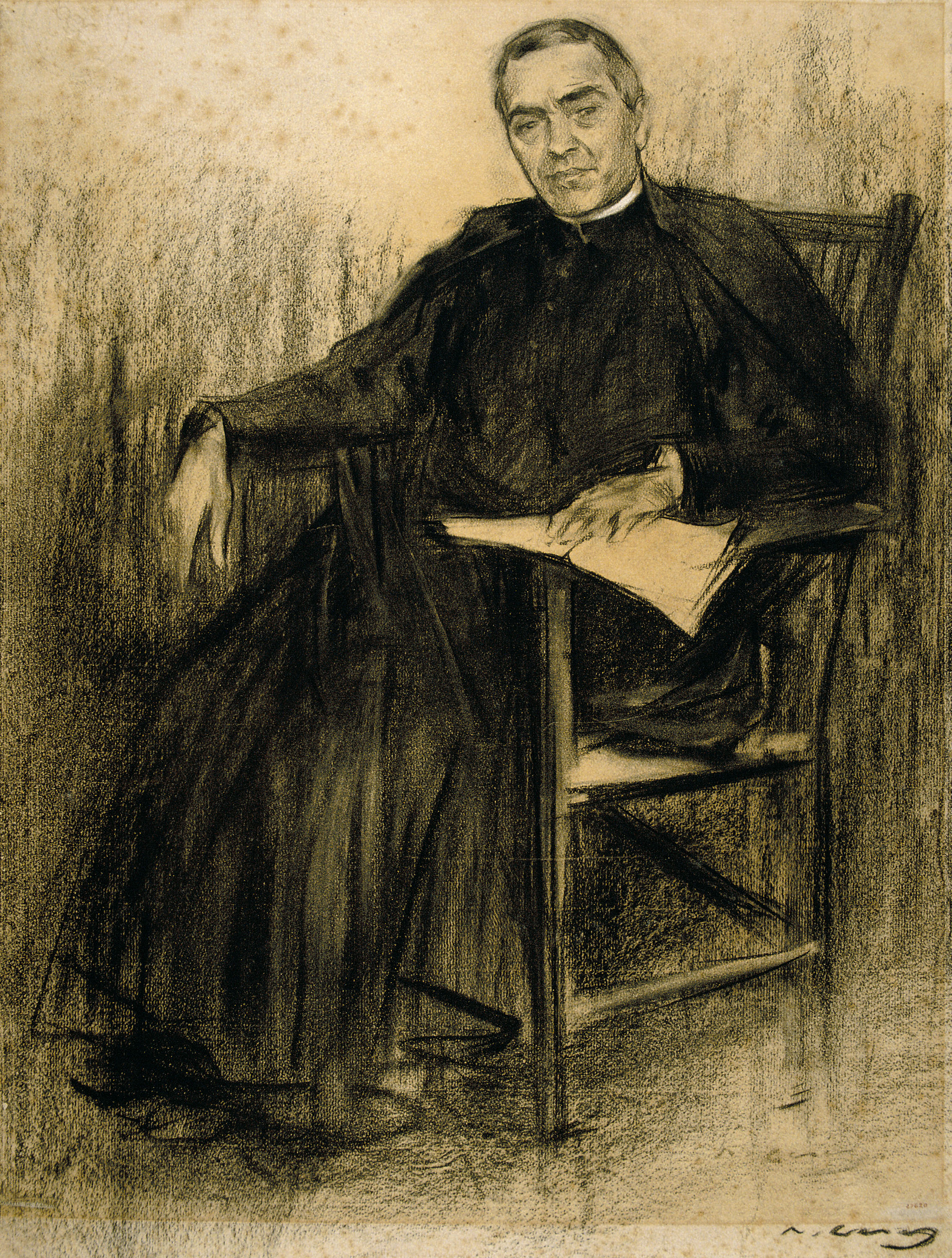 Portrait by Ramon Casas conserved at MNAC in Barcelona.